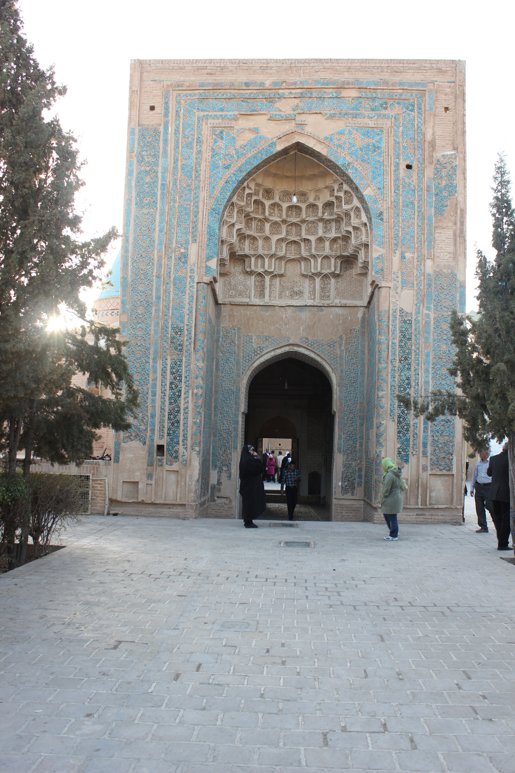 Entrence of Bayazid's Mosque